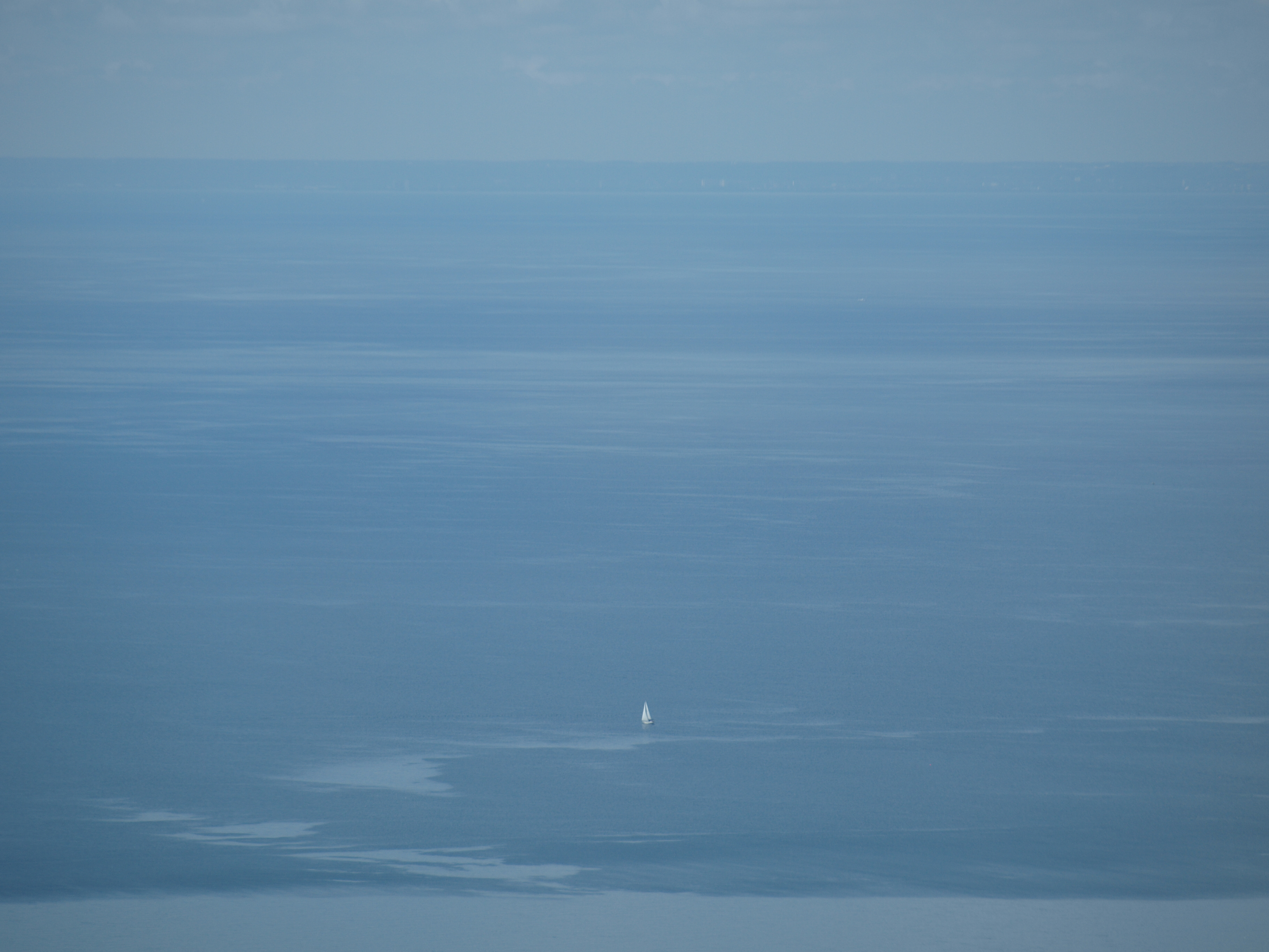 Lake Ontario as seen from glass floor level of CN Tower.